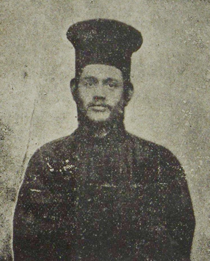 Picture of a young Papa Kristo Negovani